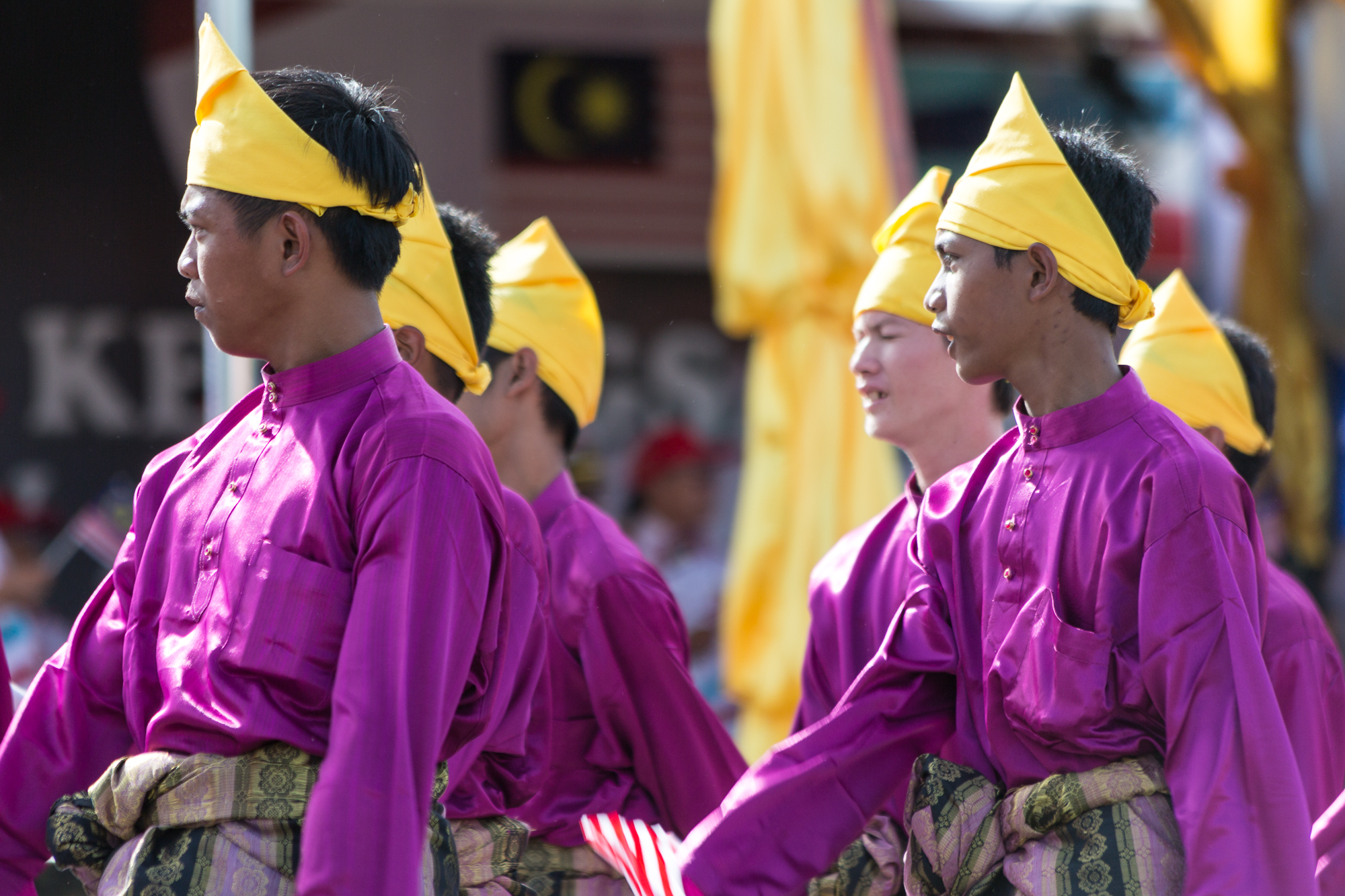 Kota Kinabalu, Sabah, Malaysia: Parade during Celebrations of Hari Merdeka 2013 in Likas on August 31, 2013